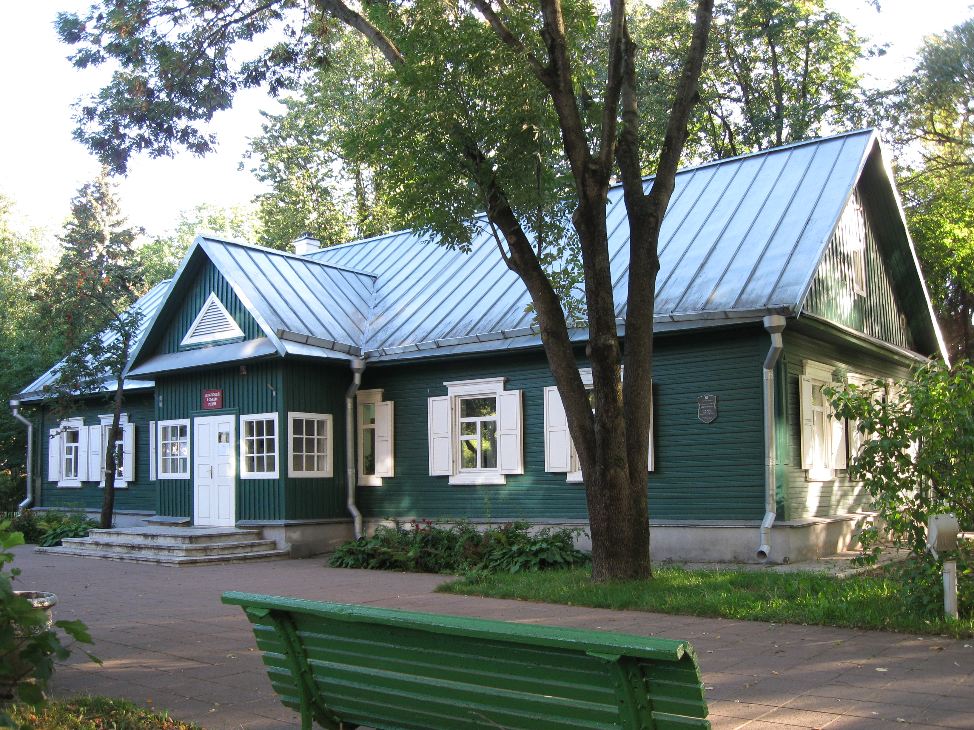 Беларуская (тарашкевіца): Дом-музэй І зьезда РСДРП. г. Менск This is a photo of Belarusian heritage monument. Reference number: 713Д000180 ( WLM)